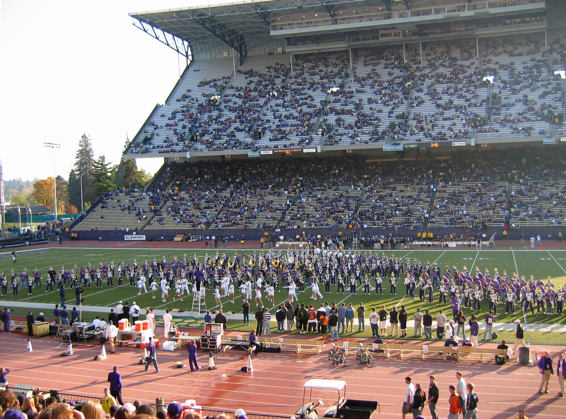 Husky Stadium pregame show band. October 28, 2006. Featuring the University of Washington Husky Marching Band